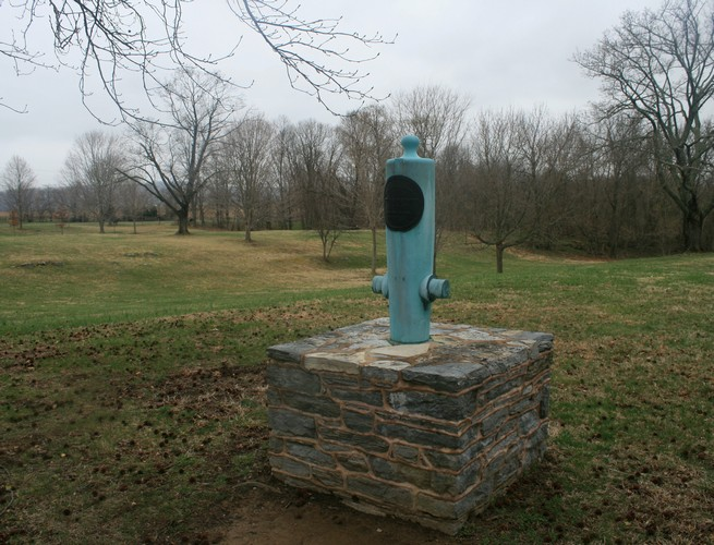 Antietam battlefield, place, where Gen. Wiliam Starke was killed.